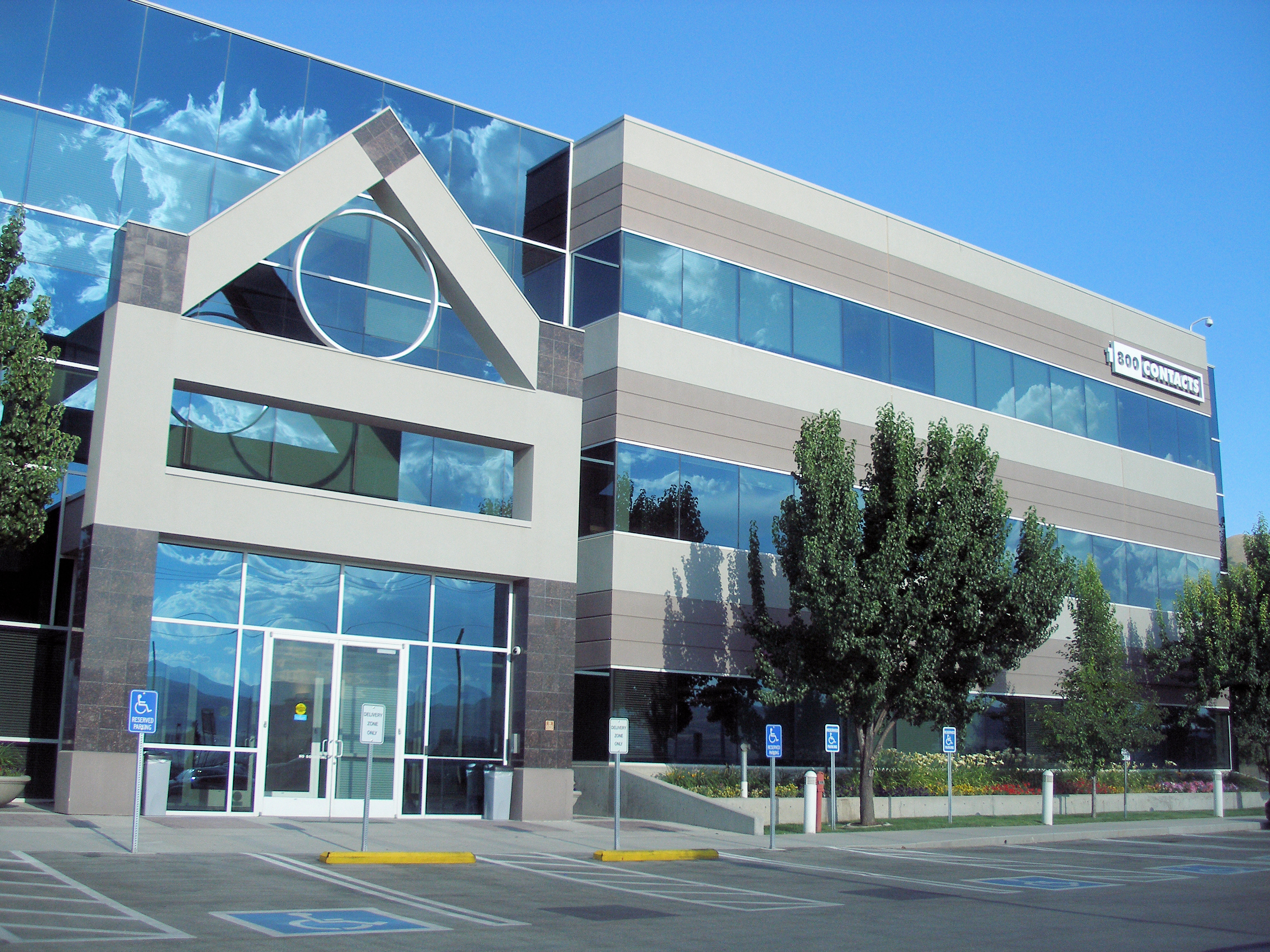 1-800 Contacts headquarters in Draper. Photographed by user Coolcaesar on July 25, 2008.